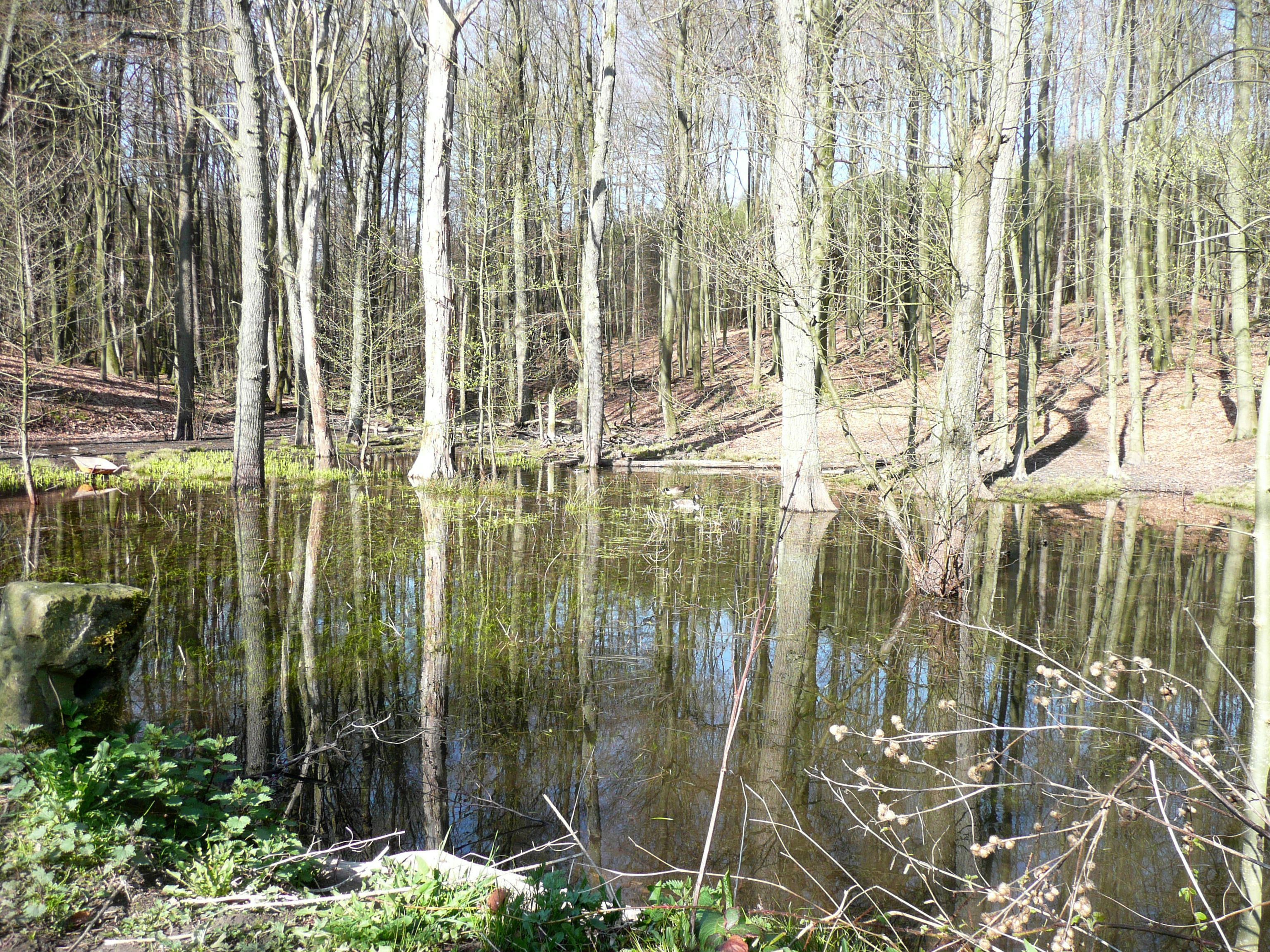 Ossenbrinksiepen